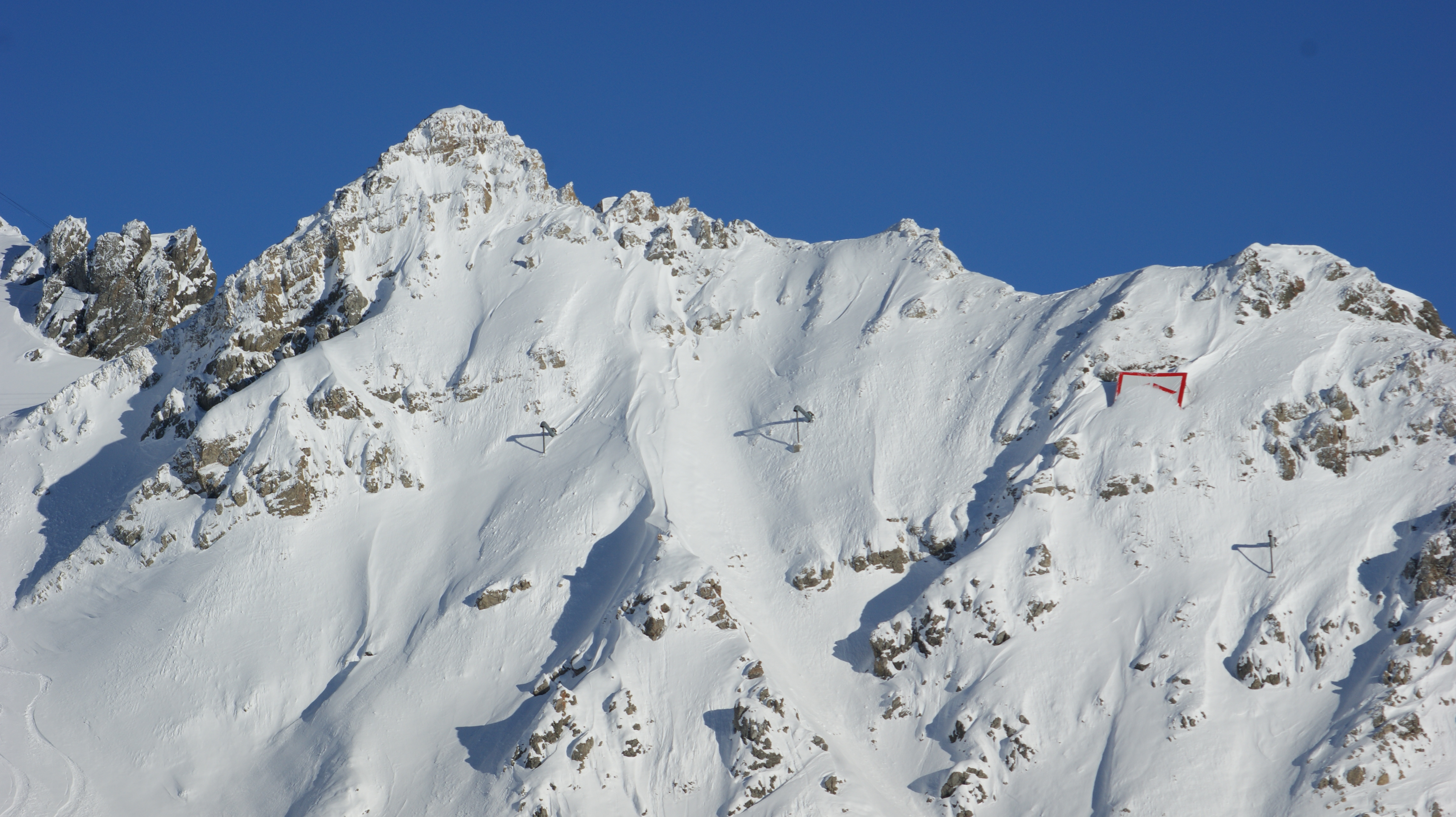 Avalanche trigger "GasEx" in Kloesterle, Alp Rautz, on Schindler Kar, Vorarlberg, Austria.